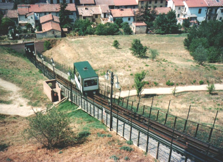 Certaldo funicular - panorama